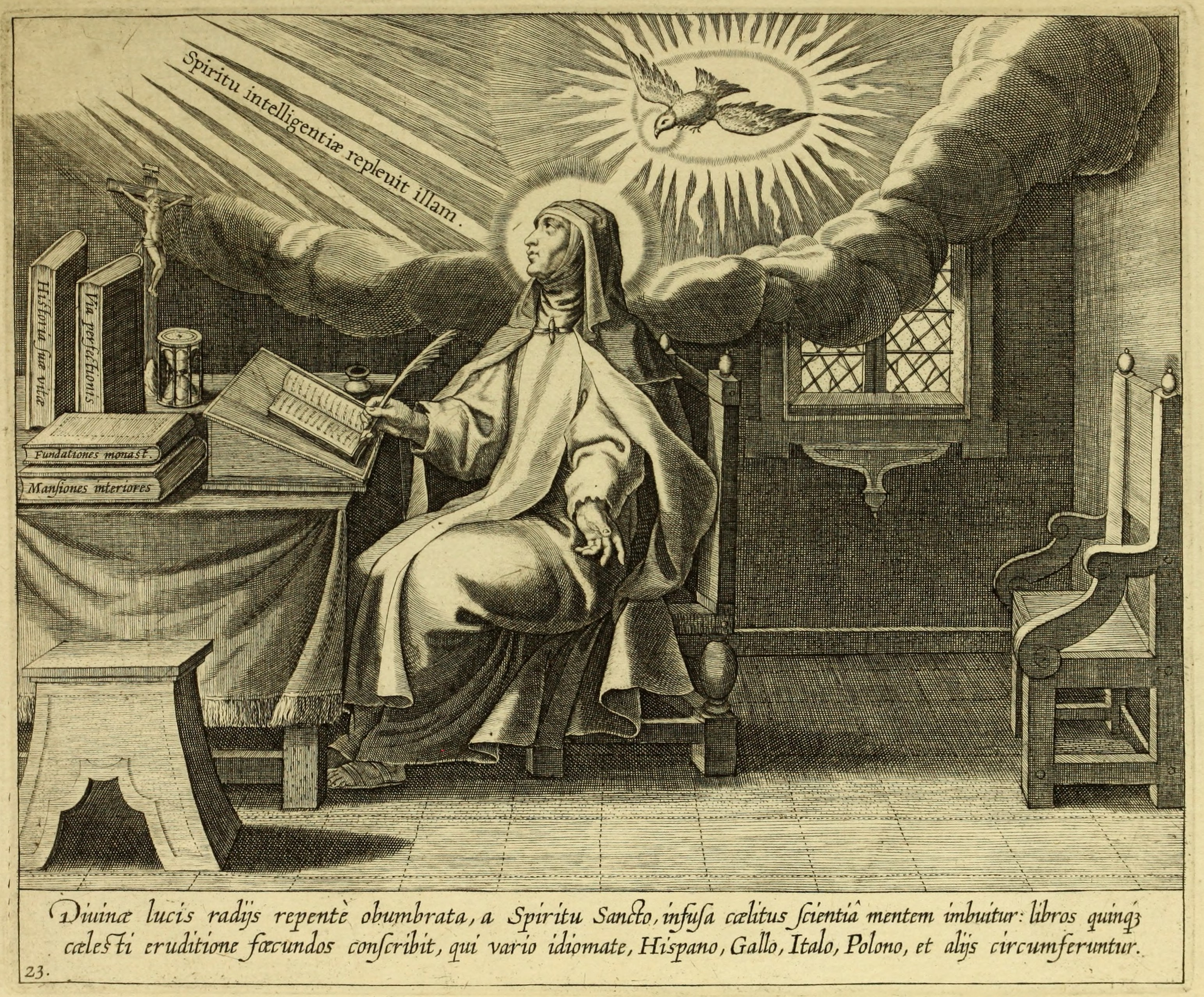 Internet Archive: Originally published in 1613?